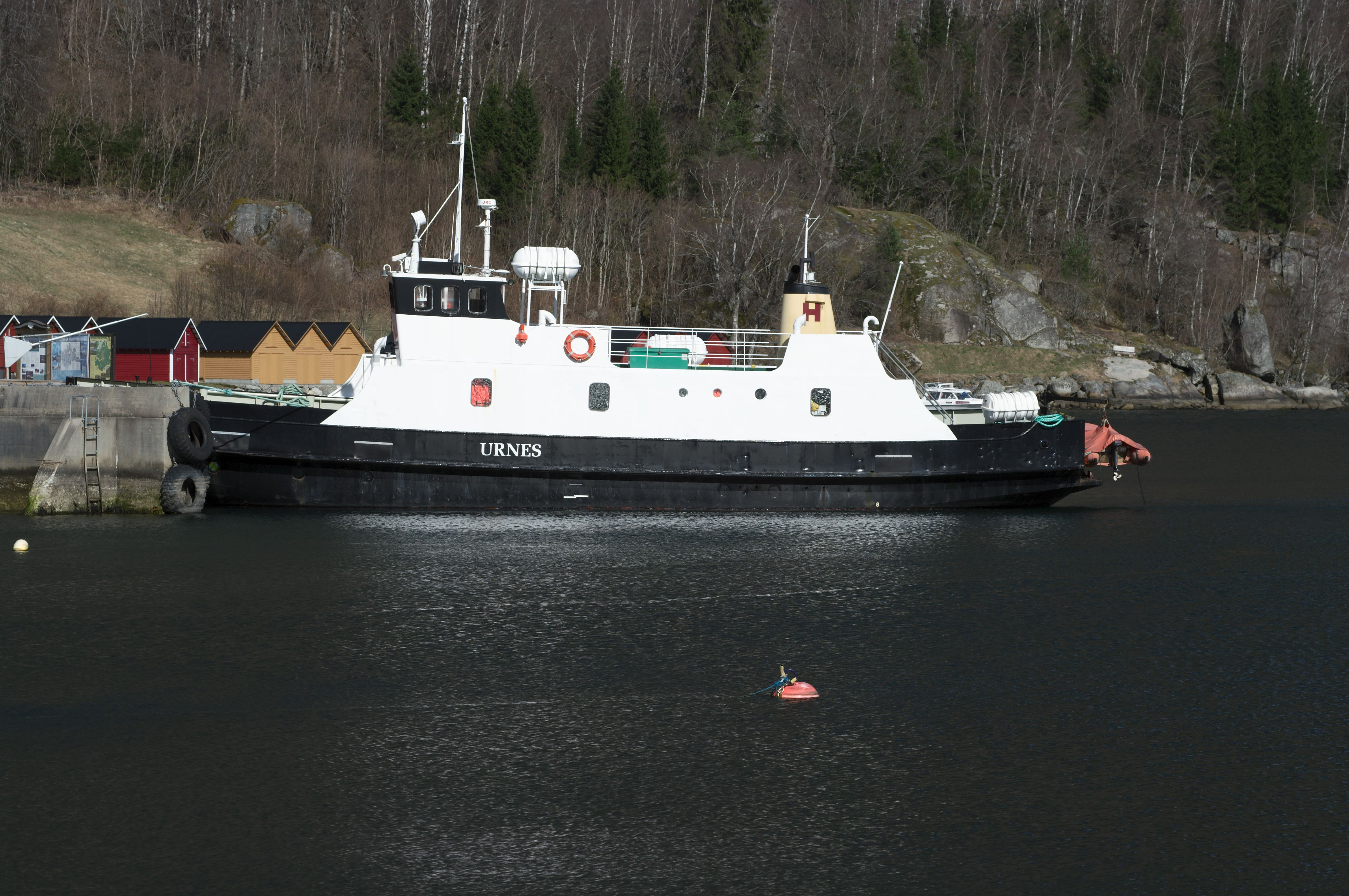 The ferry between Solvorn and Urnes. In Solvorn.